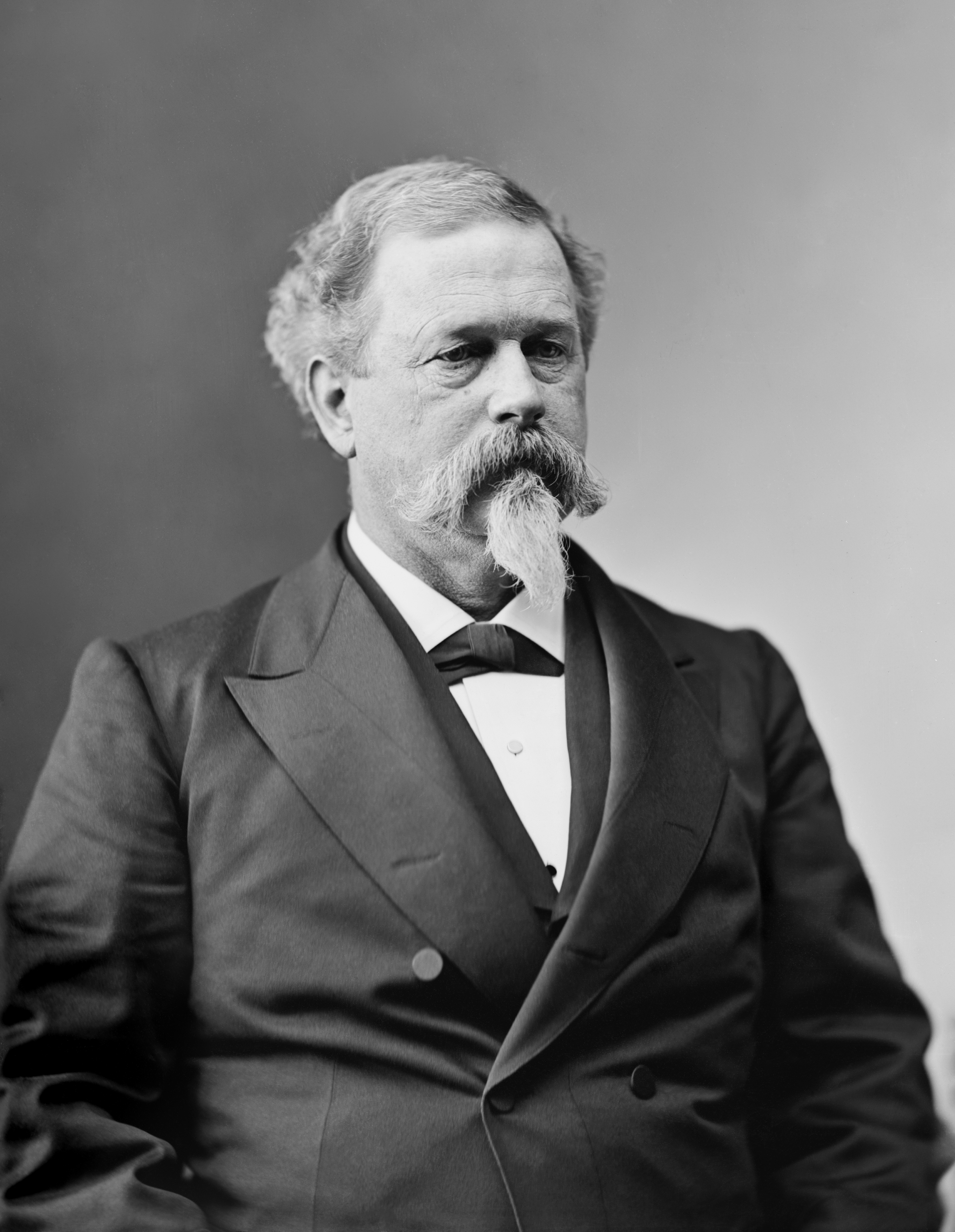 Joseph Roswell Hawley. Library of Congress description: "Hawley, Hon. Joseph Roswell of Conn. Senator. General in Union Army. Capt in 1st Regt Conn. Vol. Inf. USA Lt. Col. Of 7th Regt Conn. Vol Inf."